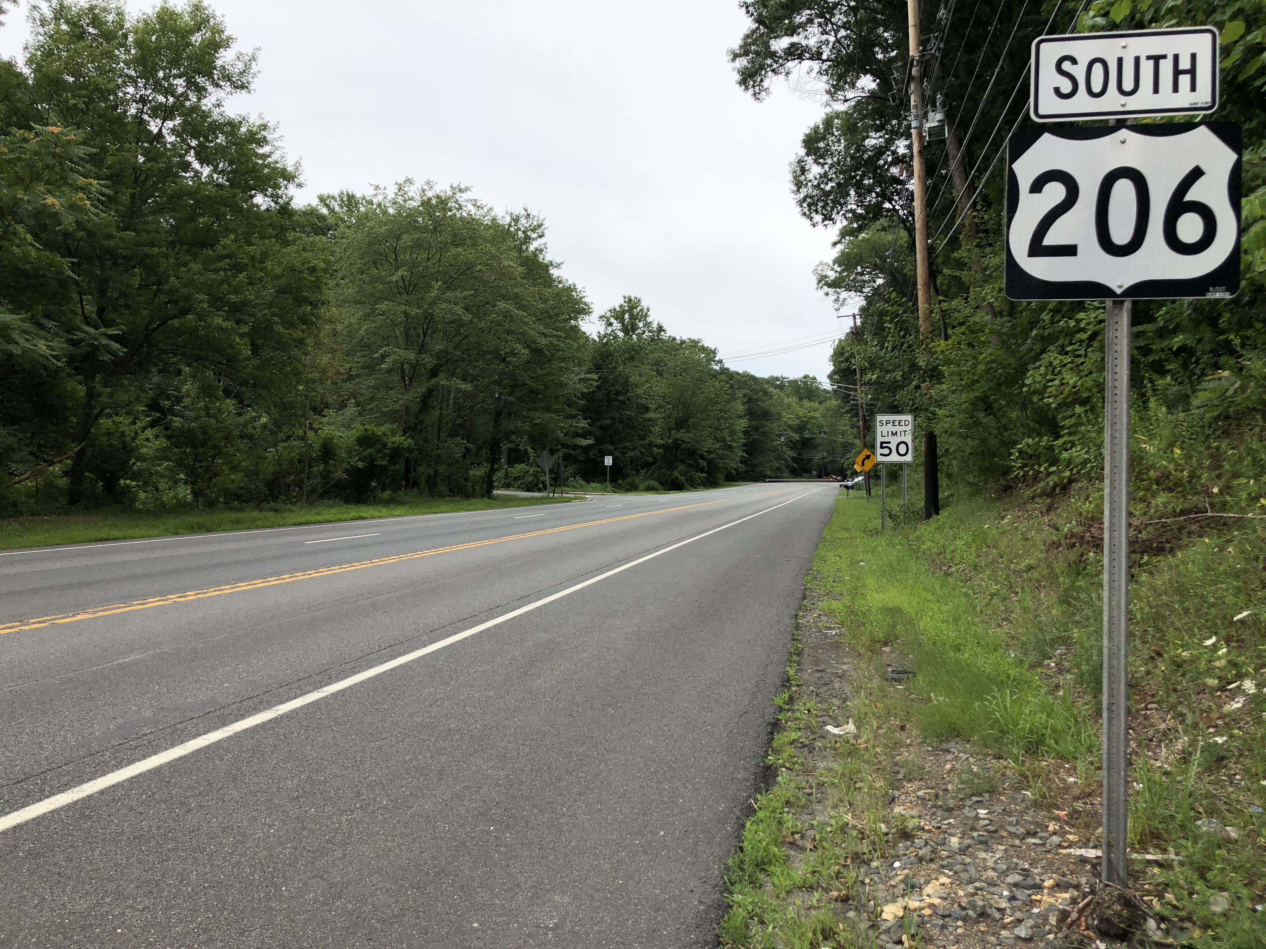 View south along U.S. Route 206 just south of Morris County Route 613 (Drakes Dale Road) in Mount Olive Township, Morris County, New Jersey